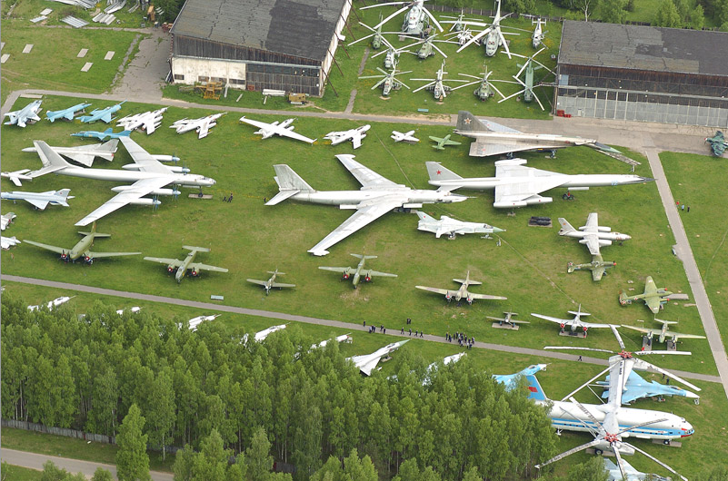 An aerial photograph of the Central Air Force Museum in Monino, Moscow Oblast, Russia.